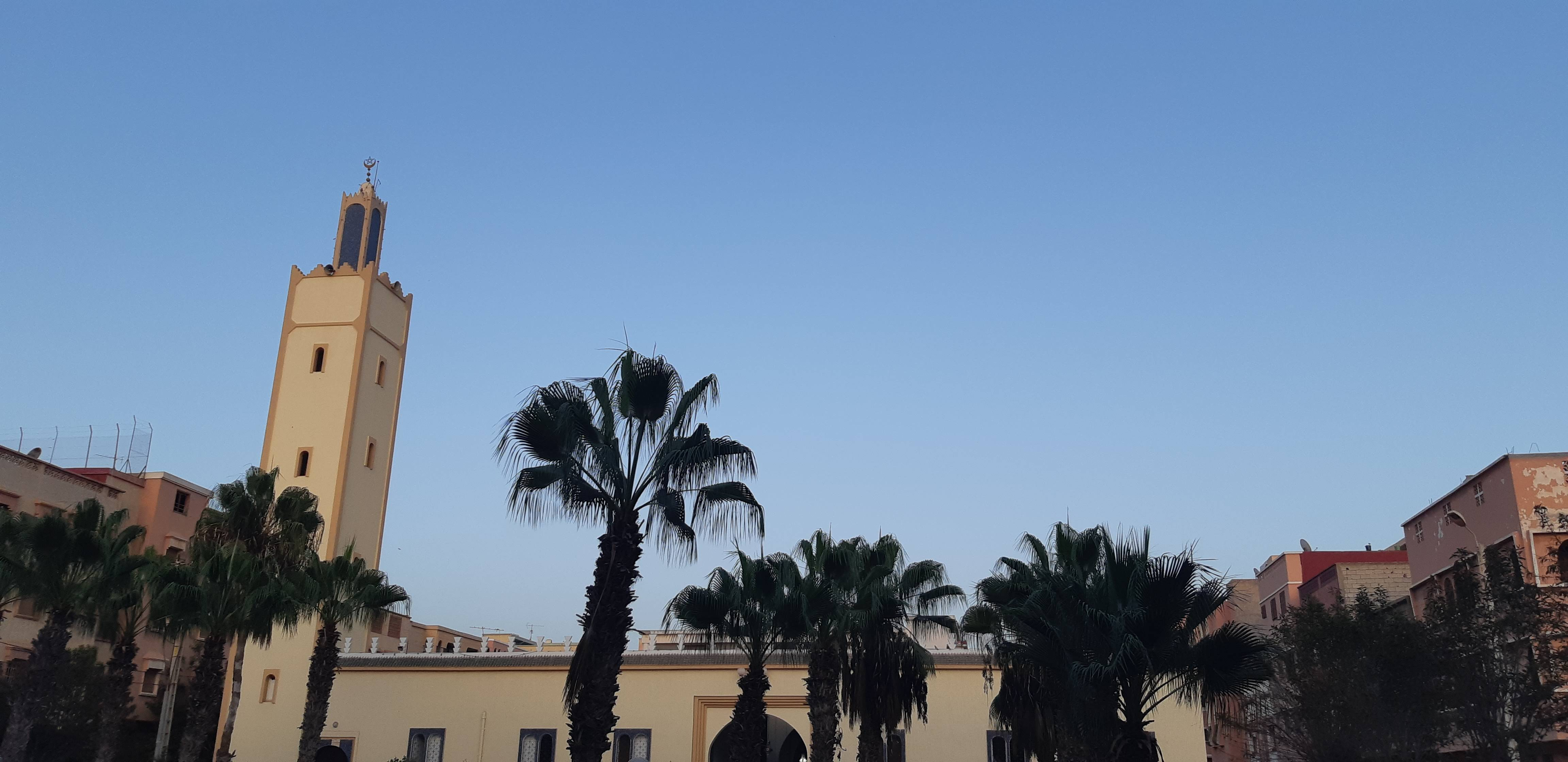 Mosque El Fateh Ait Melloul 2019